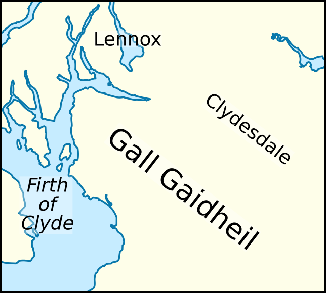 Map for the Wikipedia article concerning Walter fitz Alan, Steward of Scotland (died 1177).